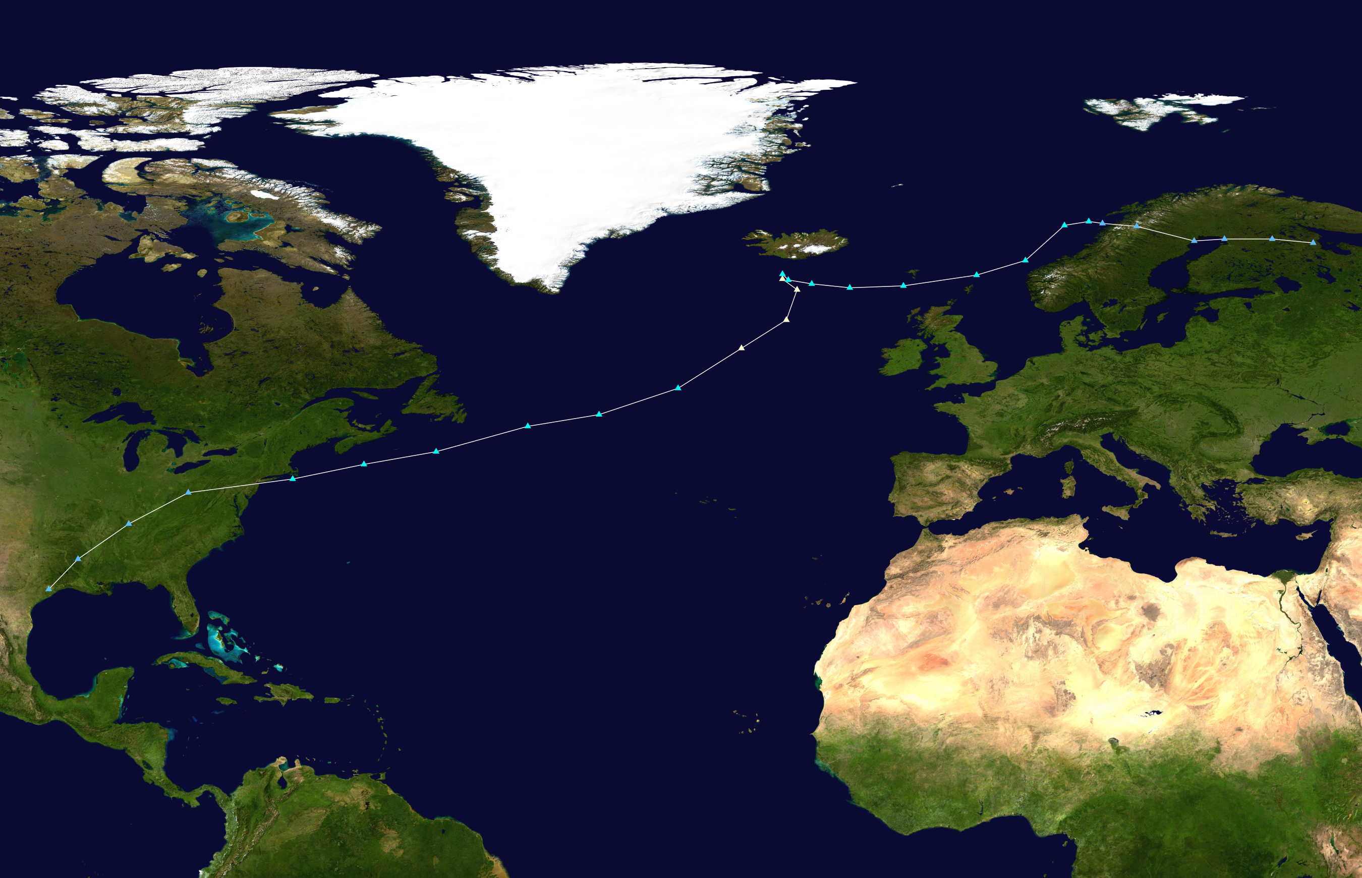 Track map of Storm Dennis of the 2019-20 European windstorm season. The points show the location of the storm at 6-hour intervals. The colour represents the storm's maximum sustained wind speeds as classified in the Saffir–Simpson scale (see below), and the shape of the data points represent the nature of the storm, according to the legend below. Saffir–Simpson scale Tropical depression≤38 mph≤62 km/h Category 3111–129 mph178–208 km/h Tropical storm39–73 mph63–118 km/h Category 4130–156 mph209–251 km/h Category 174–95 mph119–153 km/h Category 5≥157 mph≥252 km/h Category 296–110 mph154–177 km/h Unknown Storm type Tropical cyclone Subtropical cyclone Extratropical cyclone / Remnant low / Tropical disturbance / Monsoon depression